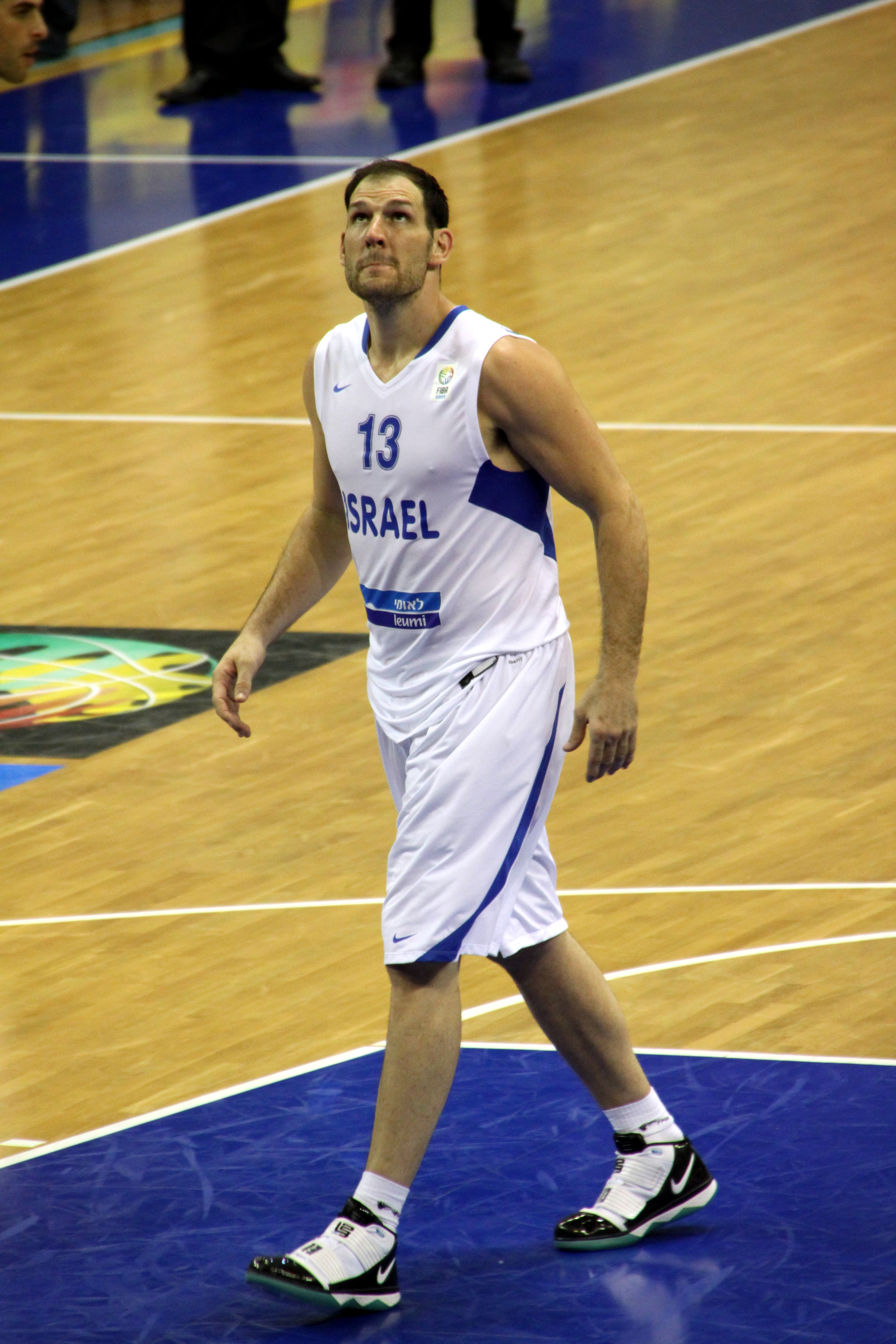 The Center of the Israeli basketball team, Ido Kozikaro [Israel 80-106 Greece, Eurobasket 2009, Poland]